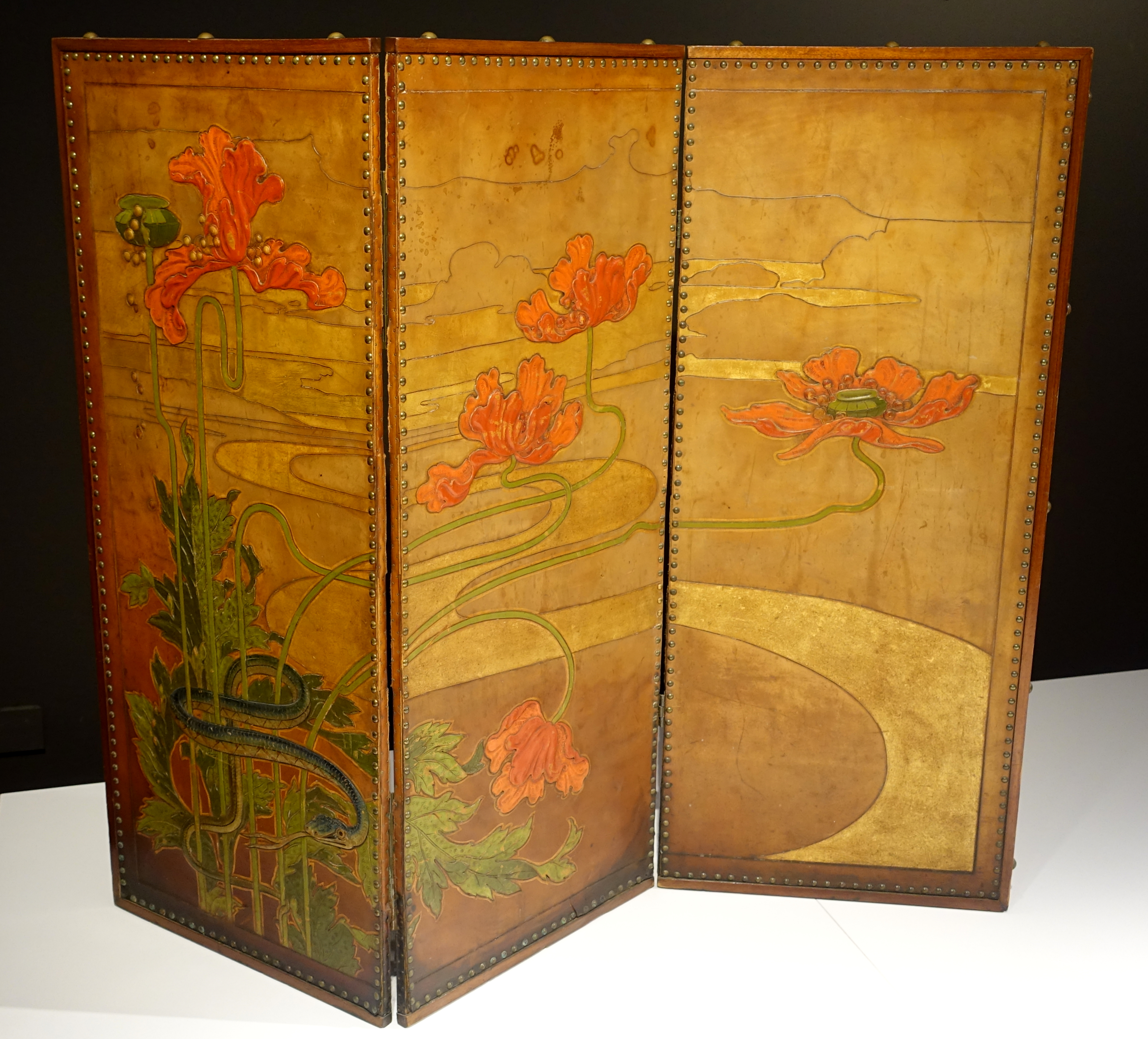 Exhibit in the Bröhan Museum, Berlin, Germany. This work is in the public domain because the artist died more than 70 years ago.